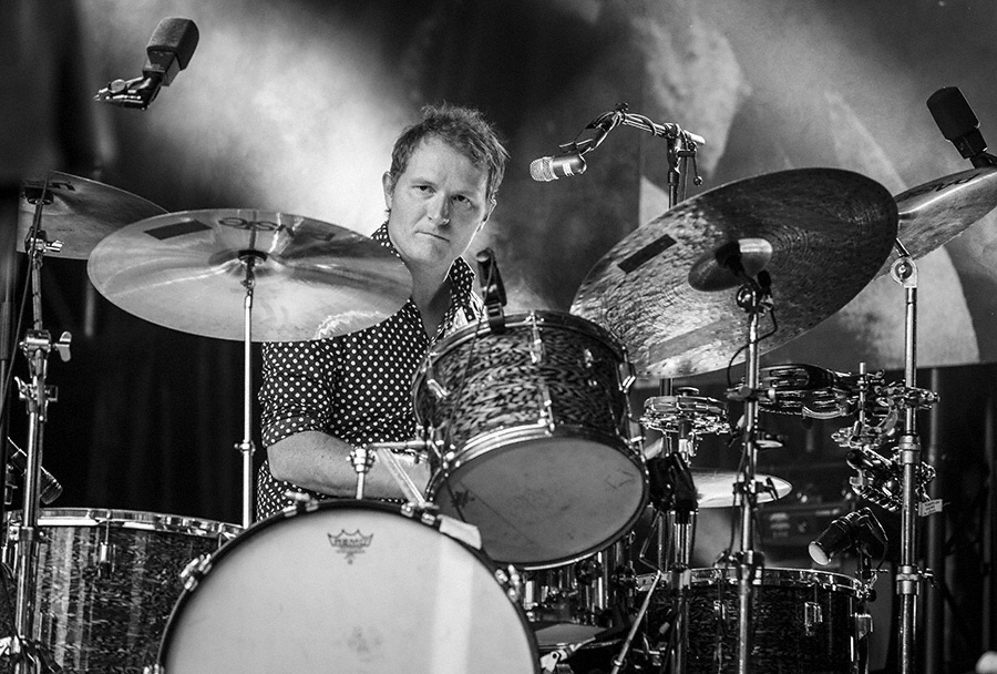 Børge Fjordheim performs at Piknik i Parken in Oslo on 25. June 2016. Lineup:Sivert Høyem (vocal)Christer Knutsen (guitar)Cato Salsa (guest guitar)Øystein Frantzvåg (bass)Børge Fjordheim (drums)